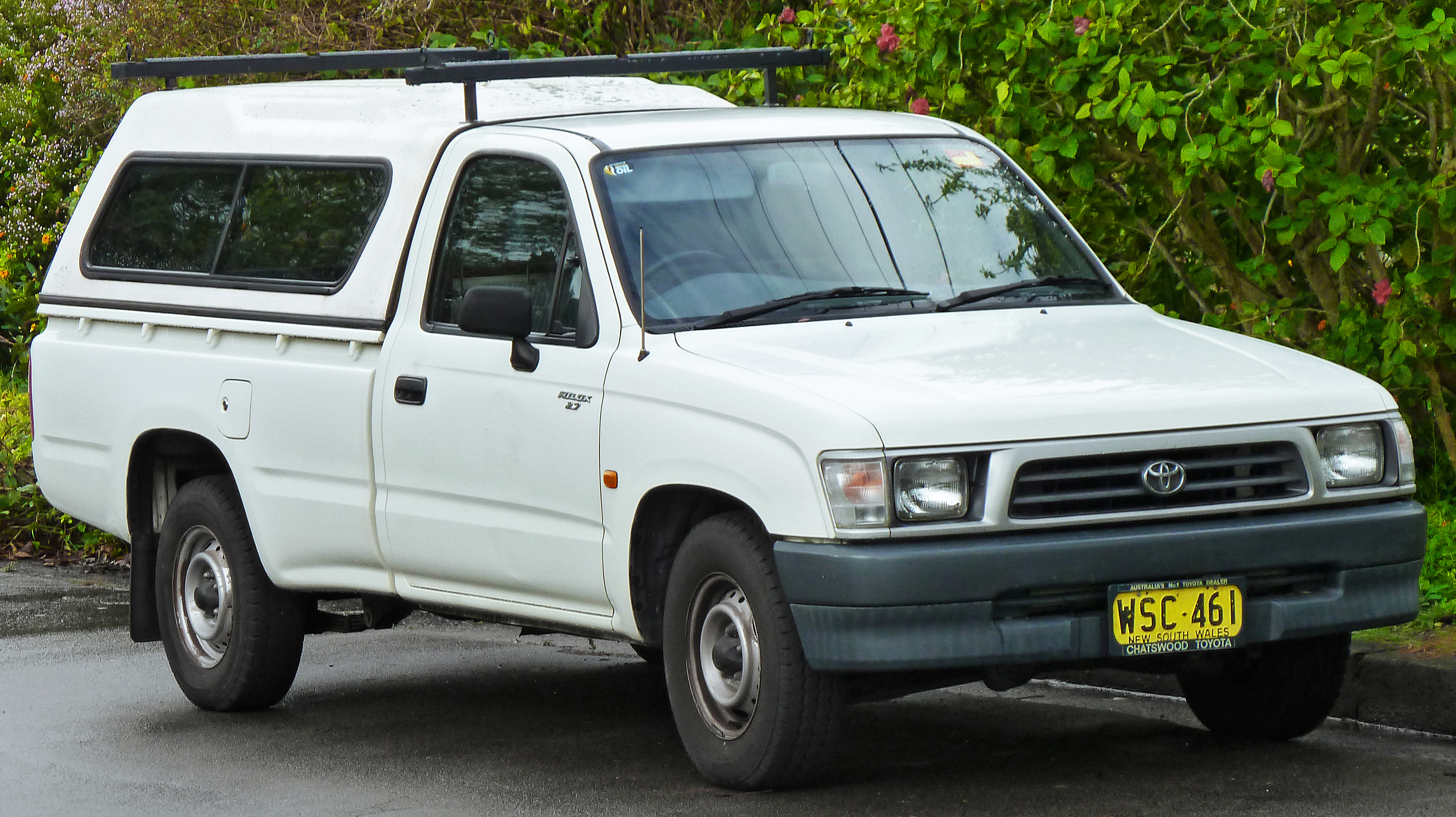 2000 Toyota HiLux (RZN149R) 2-door utility. Photographed in Roseville Chase, New South Wales, Australia.